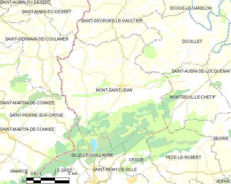 Map of French municipality